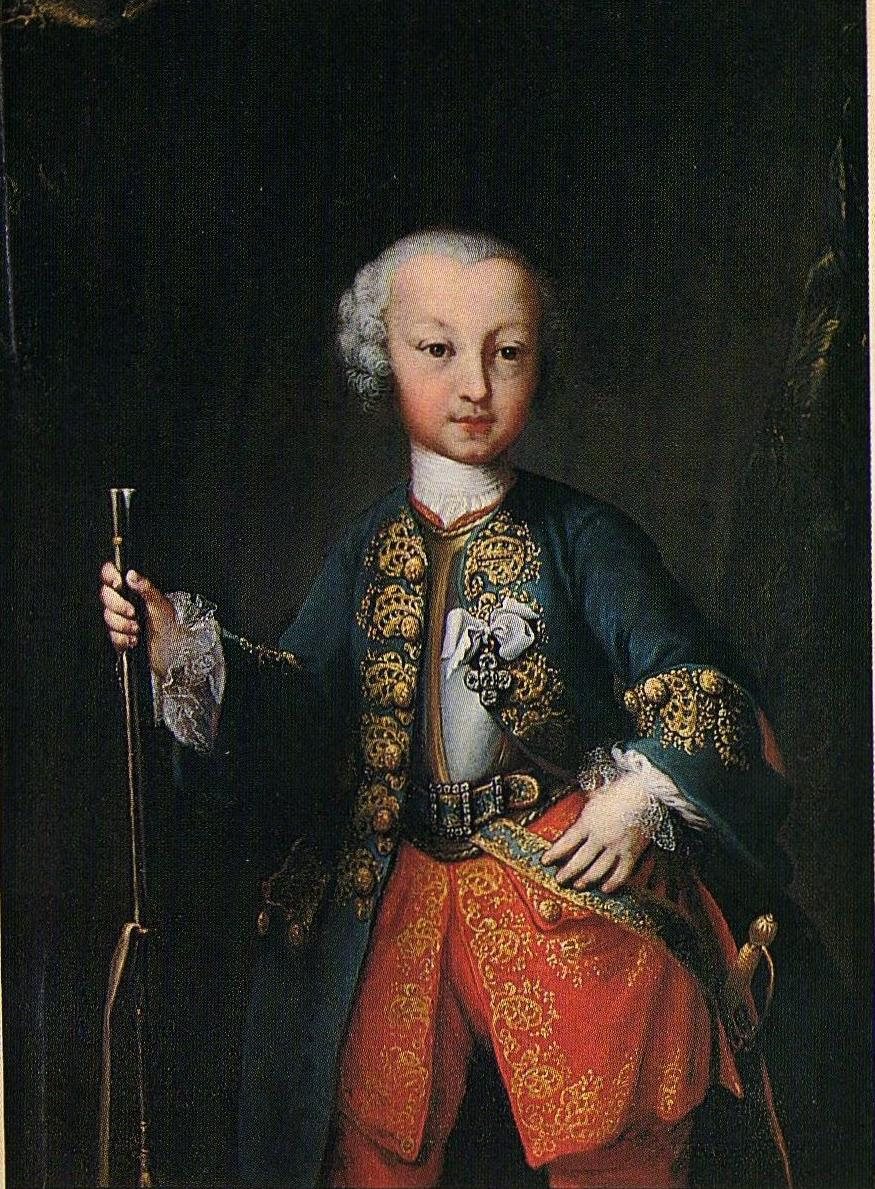 Portrait of Vittorio Amedeo of Savoy (1726-1796) while Duke of Savoy